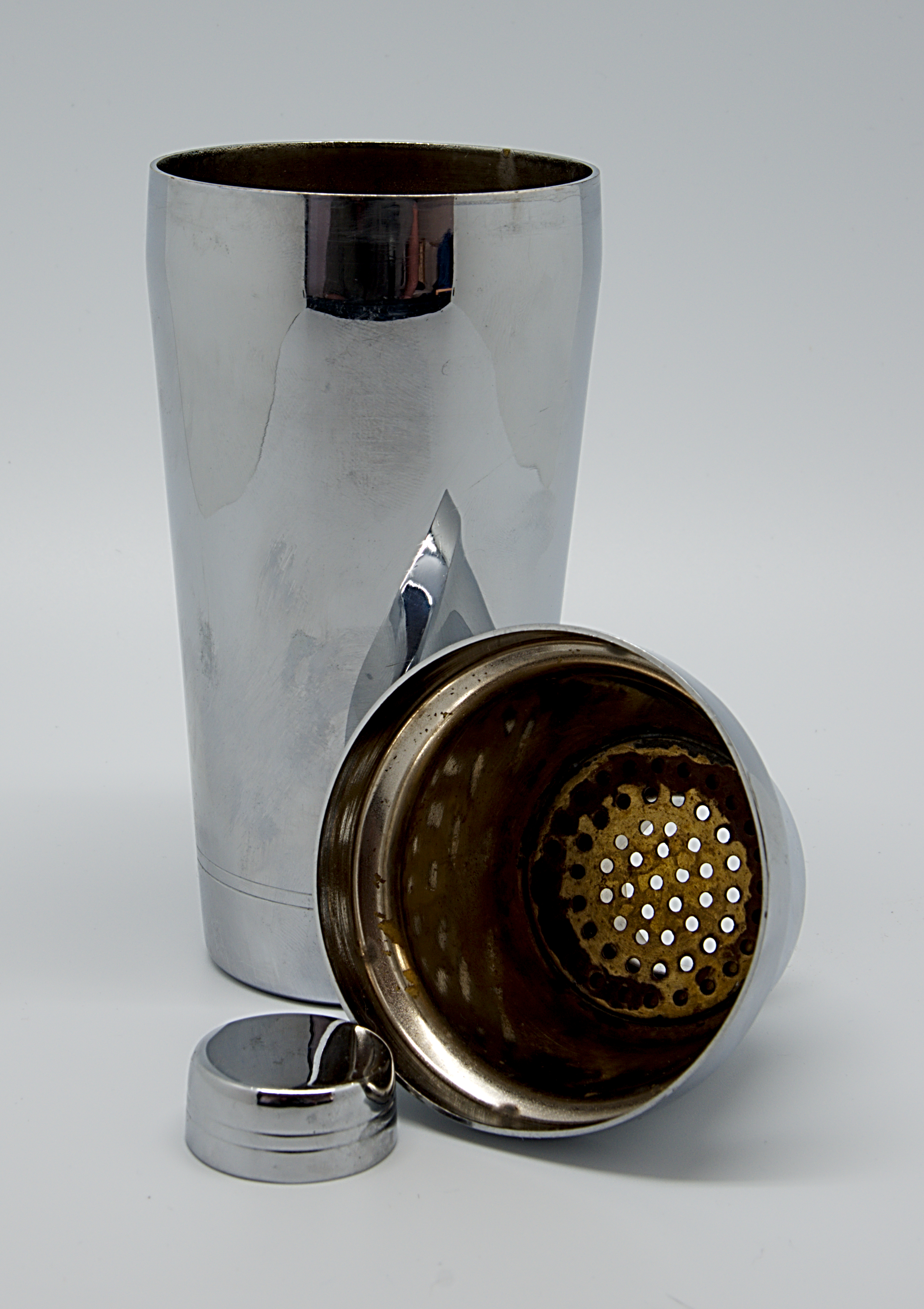 opened shaker